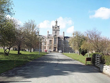 North Wales Hospital Denbigh. Taken before closure